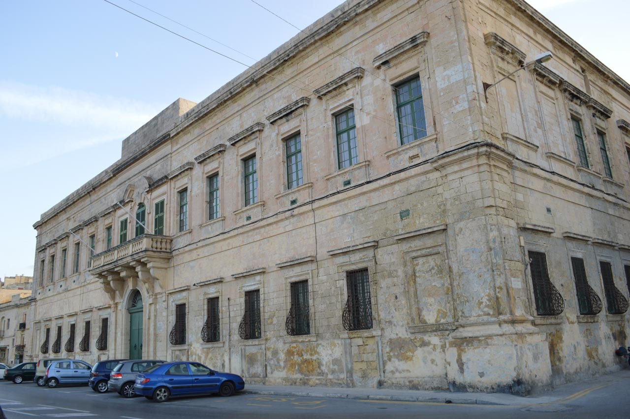 Auberge de Baviere This media is about Maltese cultural property with inventory number 01128.